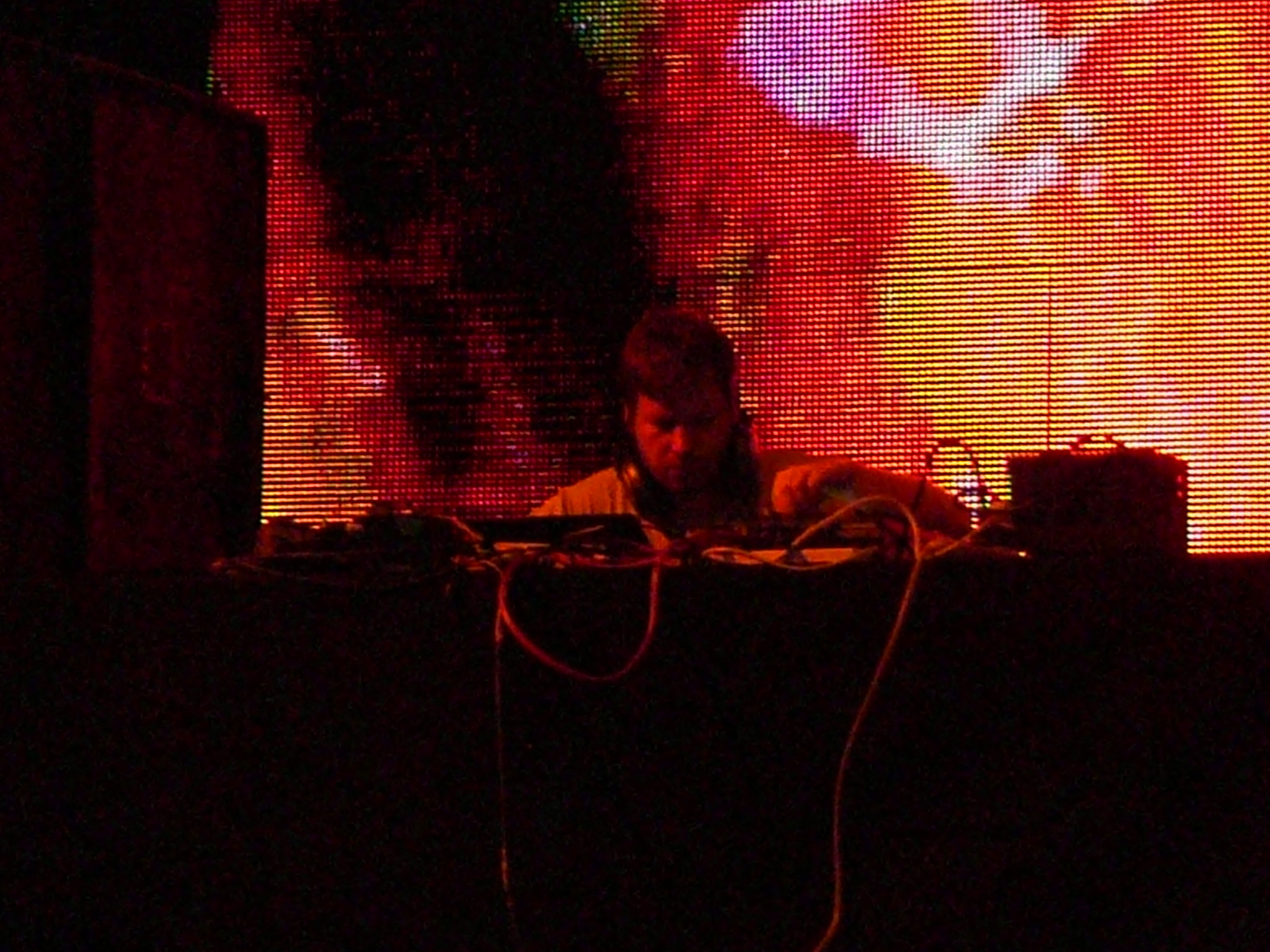 Aphex Twin at Coachella Valley Music and Arts Festival 2008